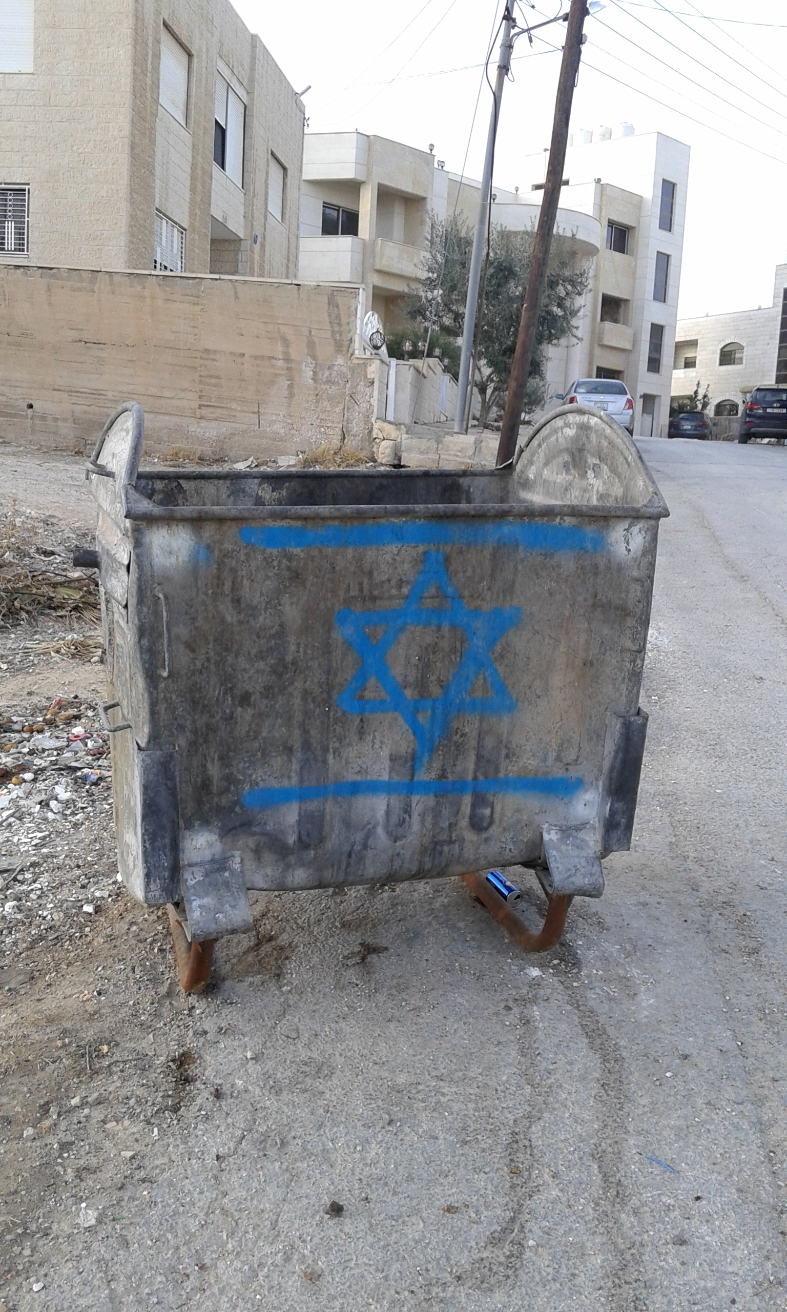 Israeli flag grafittied on a trash bin as a symbol of hating and rejection of Israel, Tabarbour, Amman.